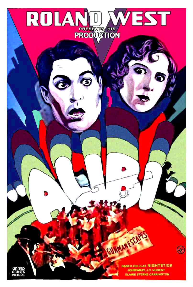 Poster for the American film Alibi (1929). The item has no copyright markings on it as can be seen in the links above.